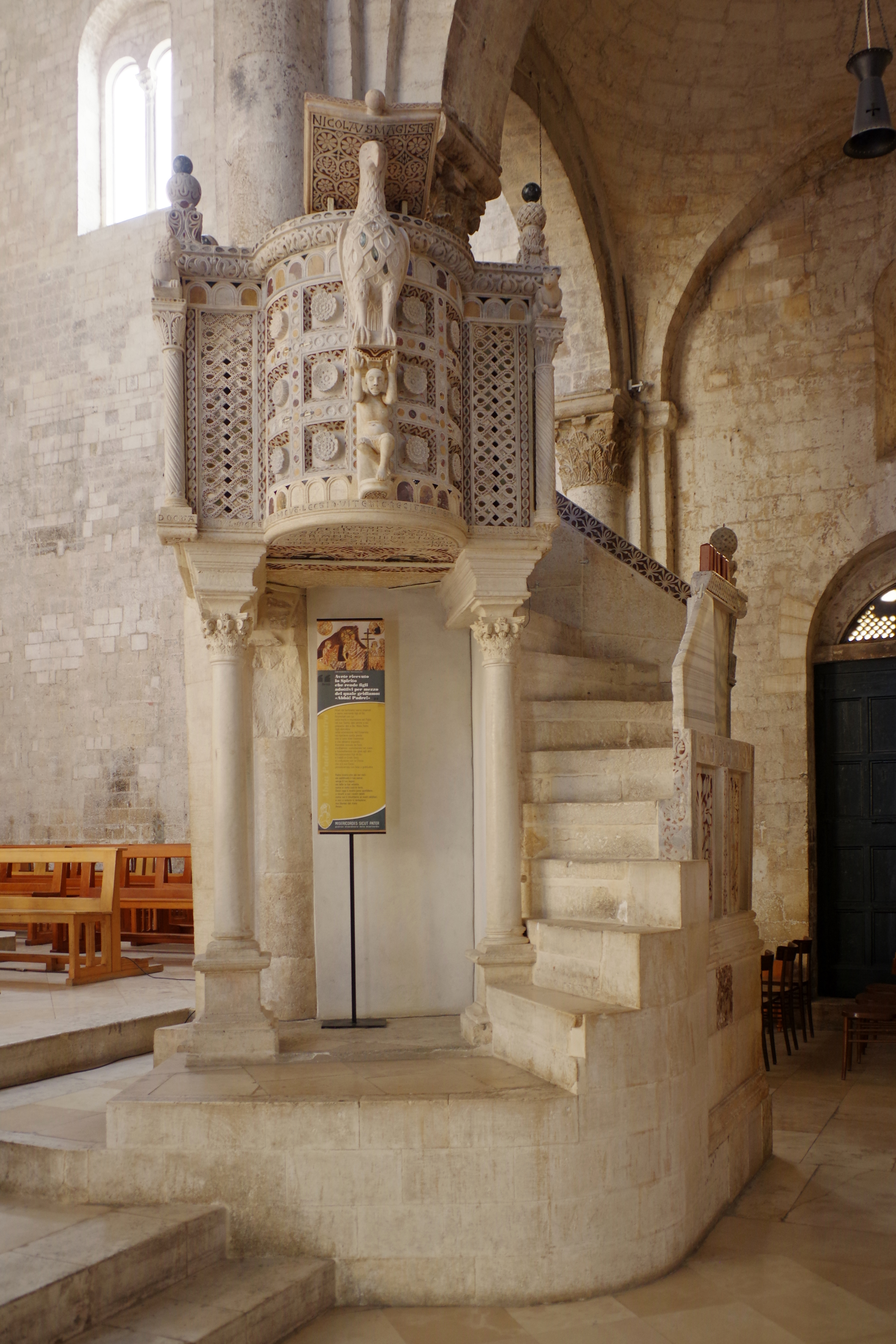 Italy, Bitonto, San Valentino cathedral